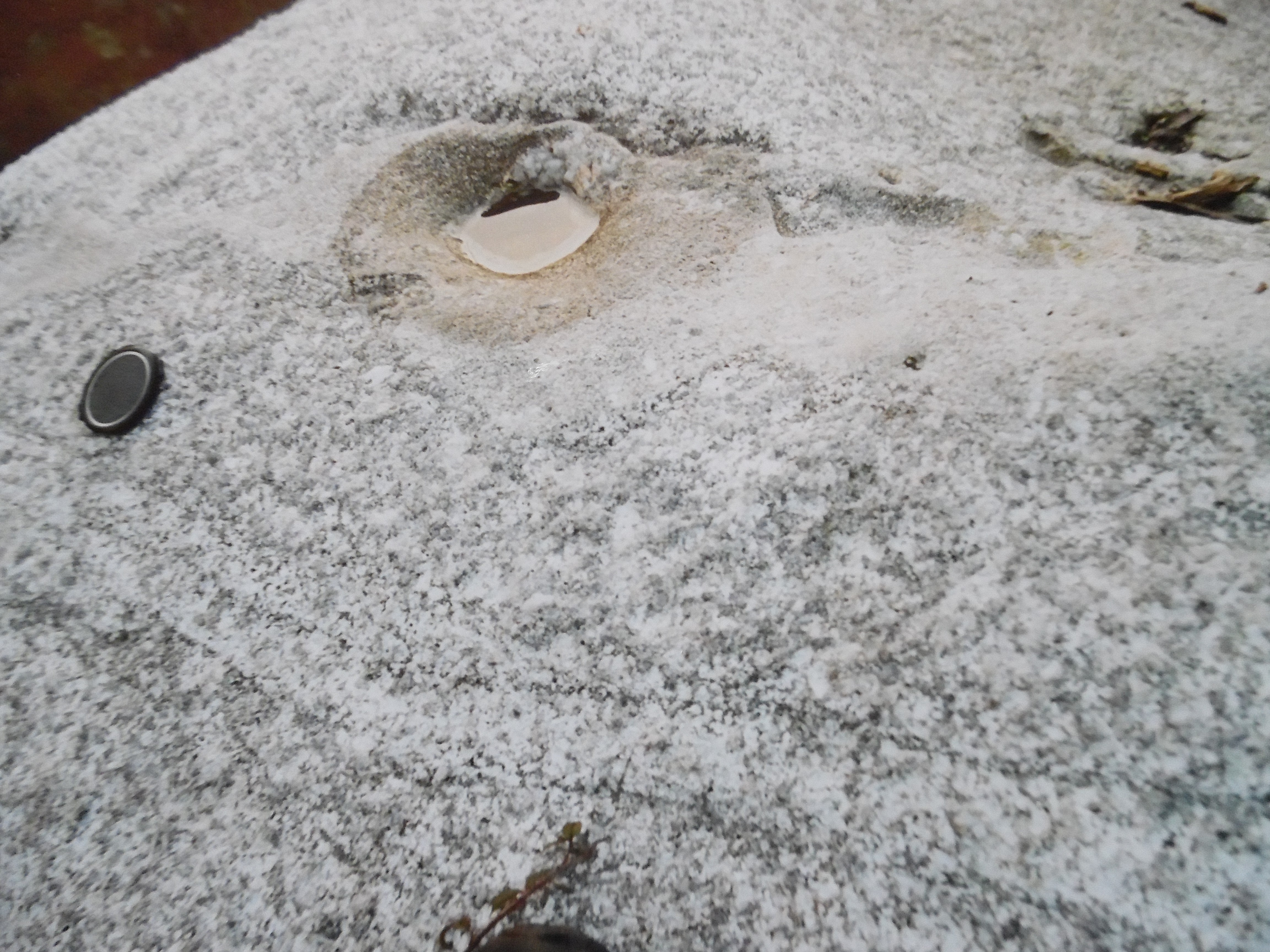 Magmatic schlieren in coarse-grained facies of the Piégut-Pluviers Granodiorite near La Chapoulie, Nontron